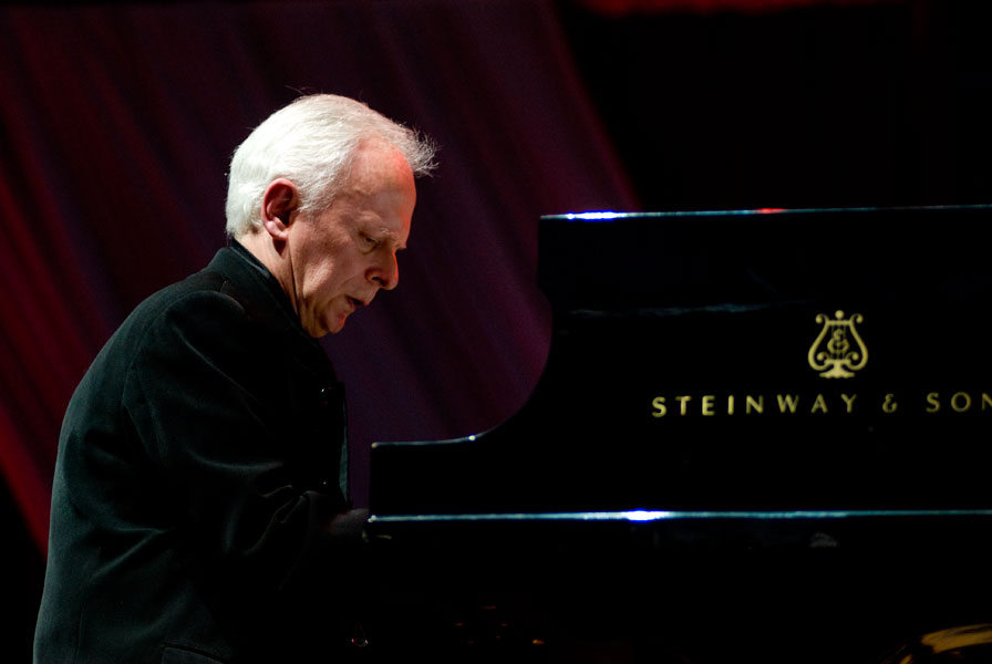 Freedom'89: Born in Poland, A Concert Celebrating the 20th Anniversary of the Fall of Communism in Poland at the Pritzker Pavilion, Millennium Park in Chicago, IL, USA